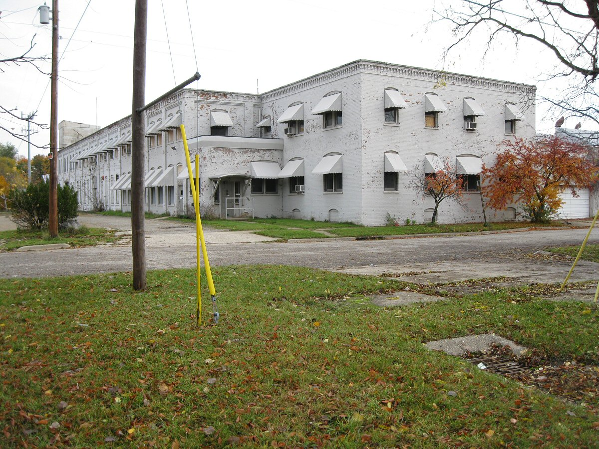 The office building on Reed St, Kalamazoo, Michigan, USA that once housed the Kalamazoo Manufacturing Company.